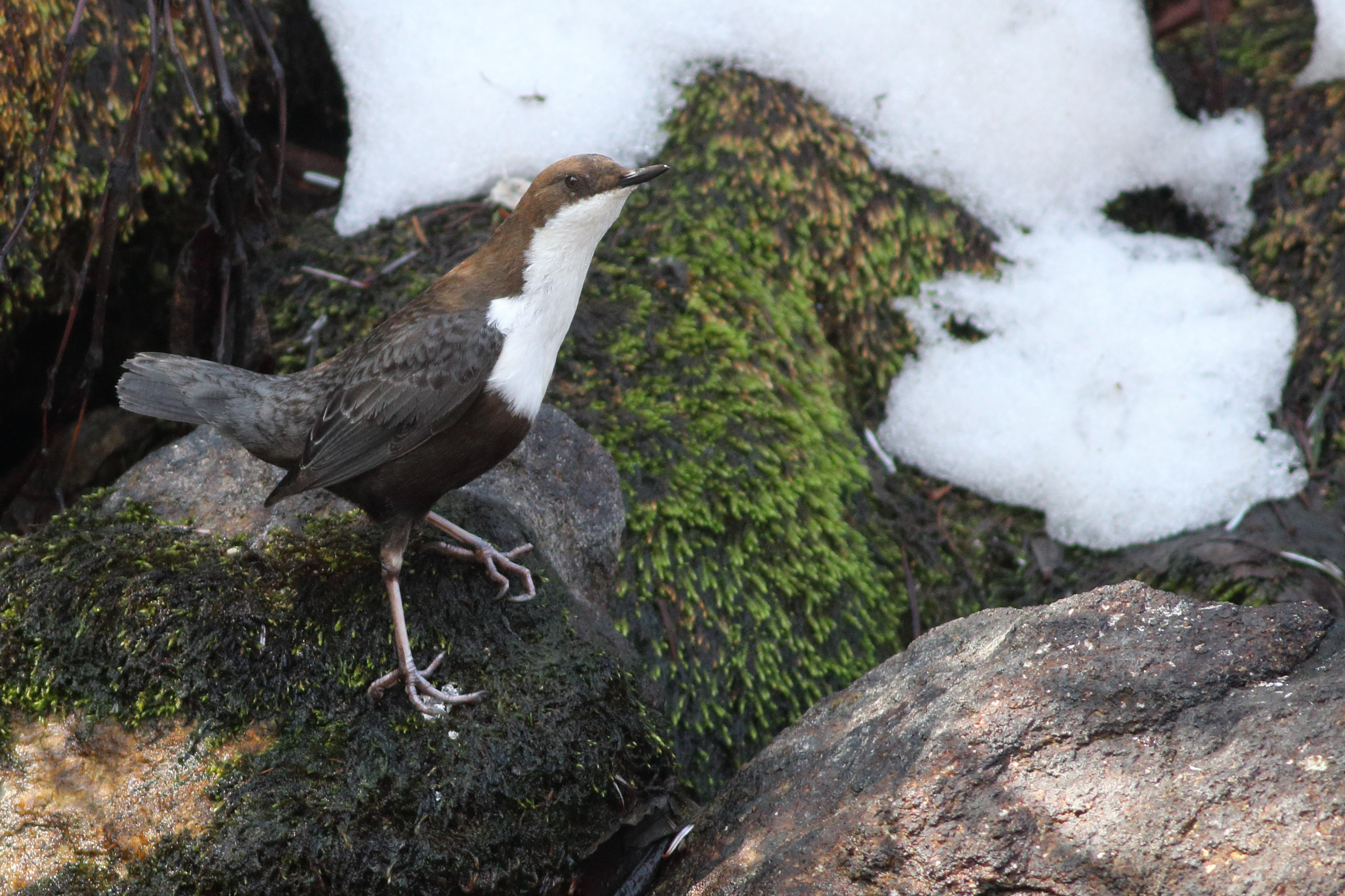 The species White-throated Dipper is photographed from Tawang river, near Jung, Arunachal Pradesh in India on 26.03.2019 during the bird watching tour of GoingWild (